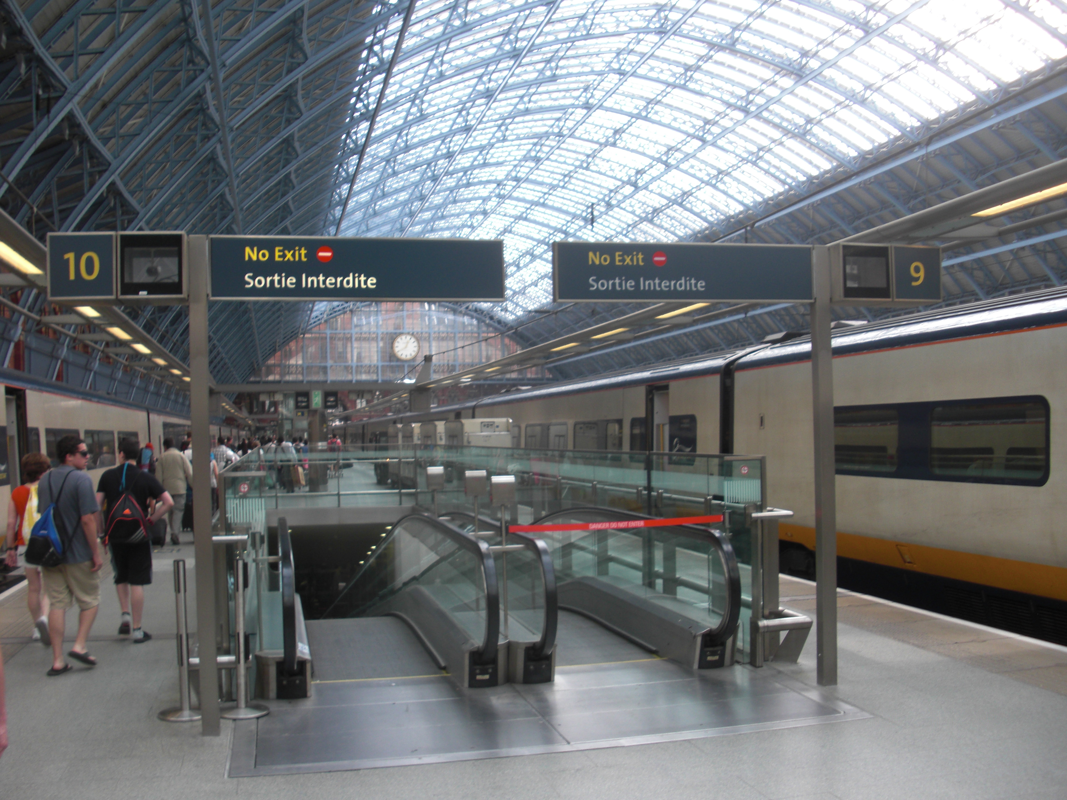 mmnmnm